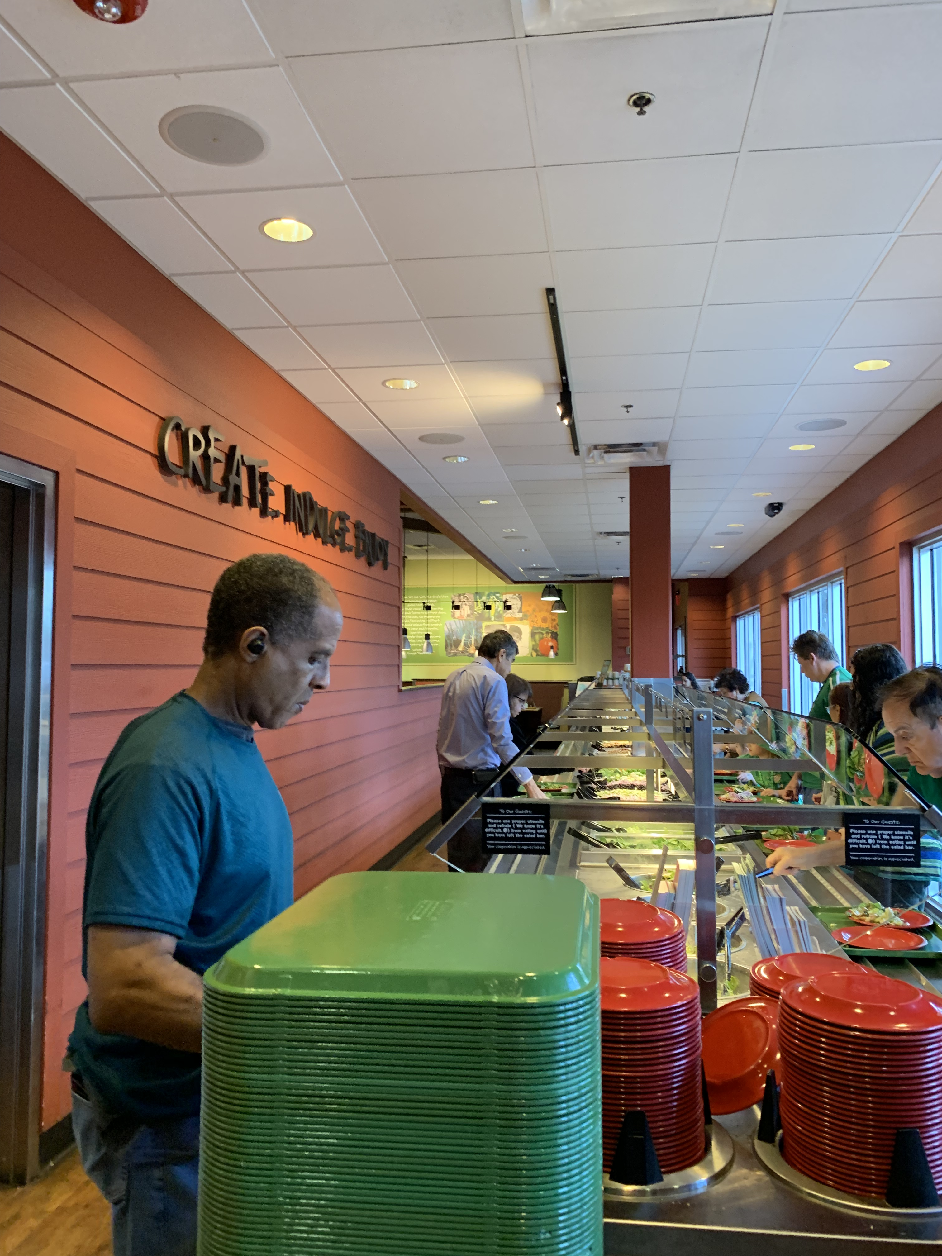 In a sweet tomatoes in Miami